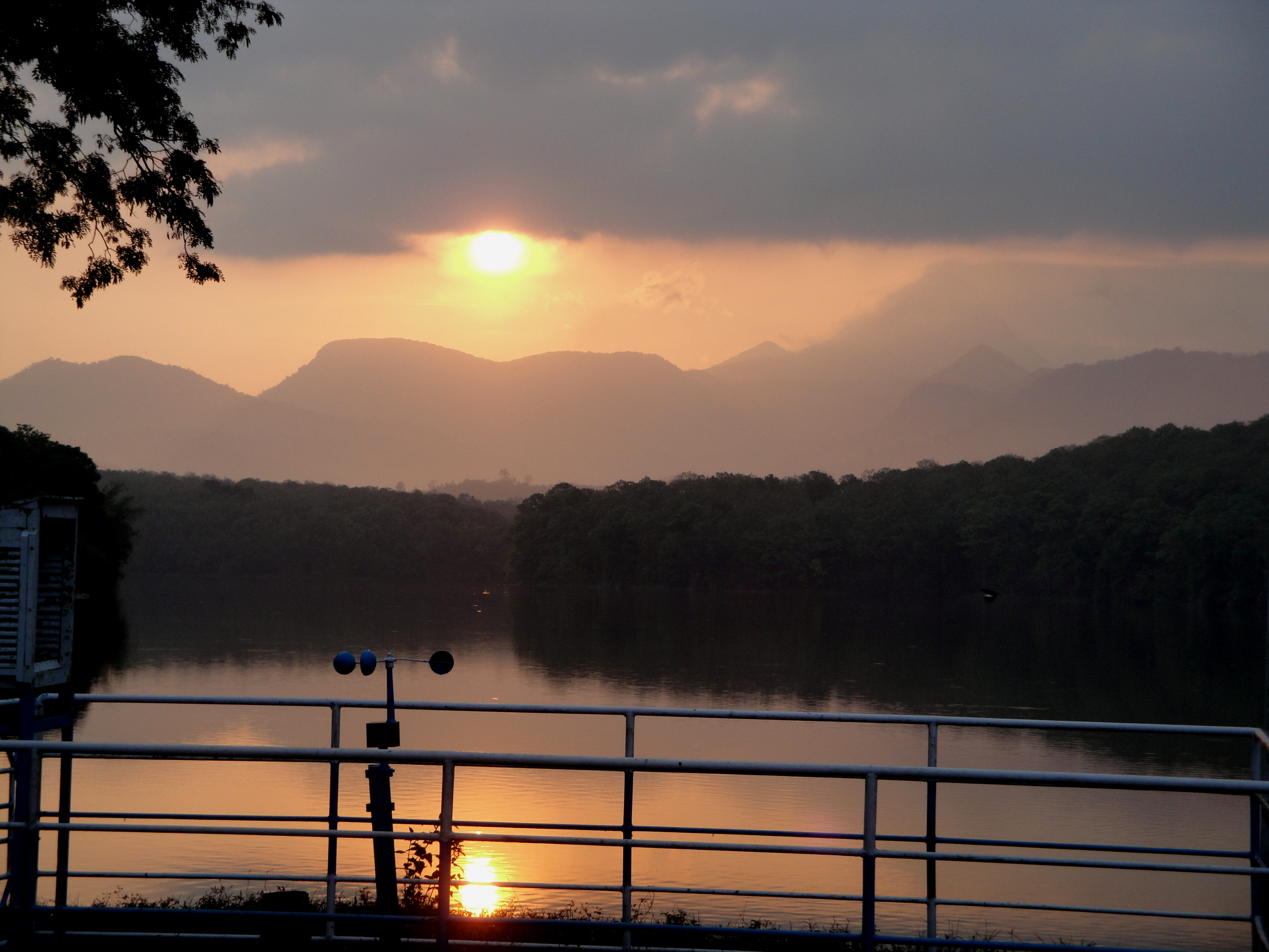 A beautiful sun set from Parambikkulam, Kerala, India.